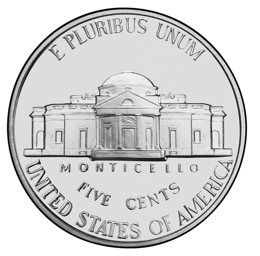 U.S. nickel reverse (public domain from )